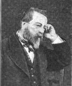 Portrait of Irish scientist Thomas Antisell (1893-1893)